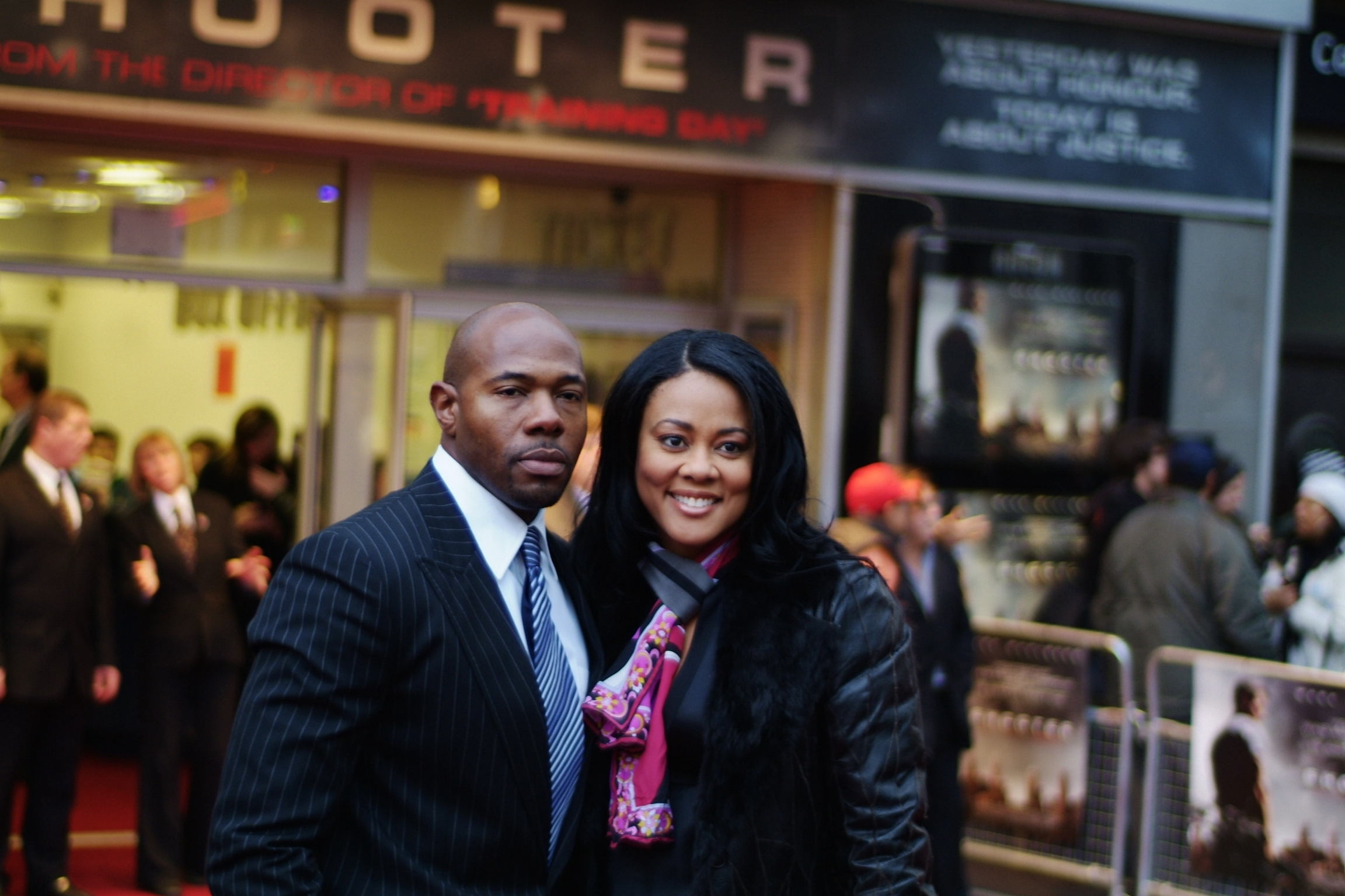 Antoine Fuqua with Lela Rochon at the Shooter Film Premiere in 2007.